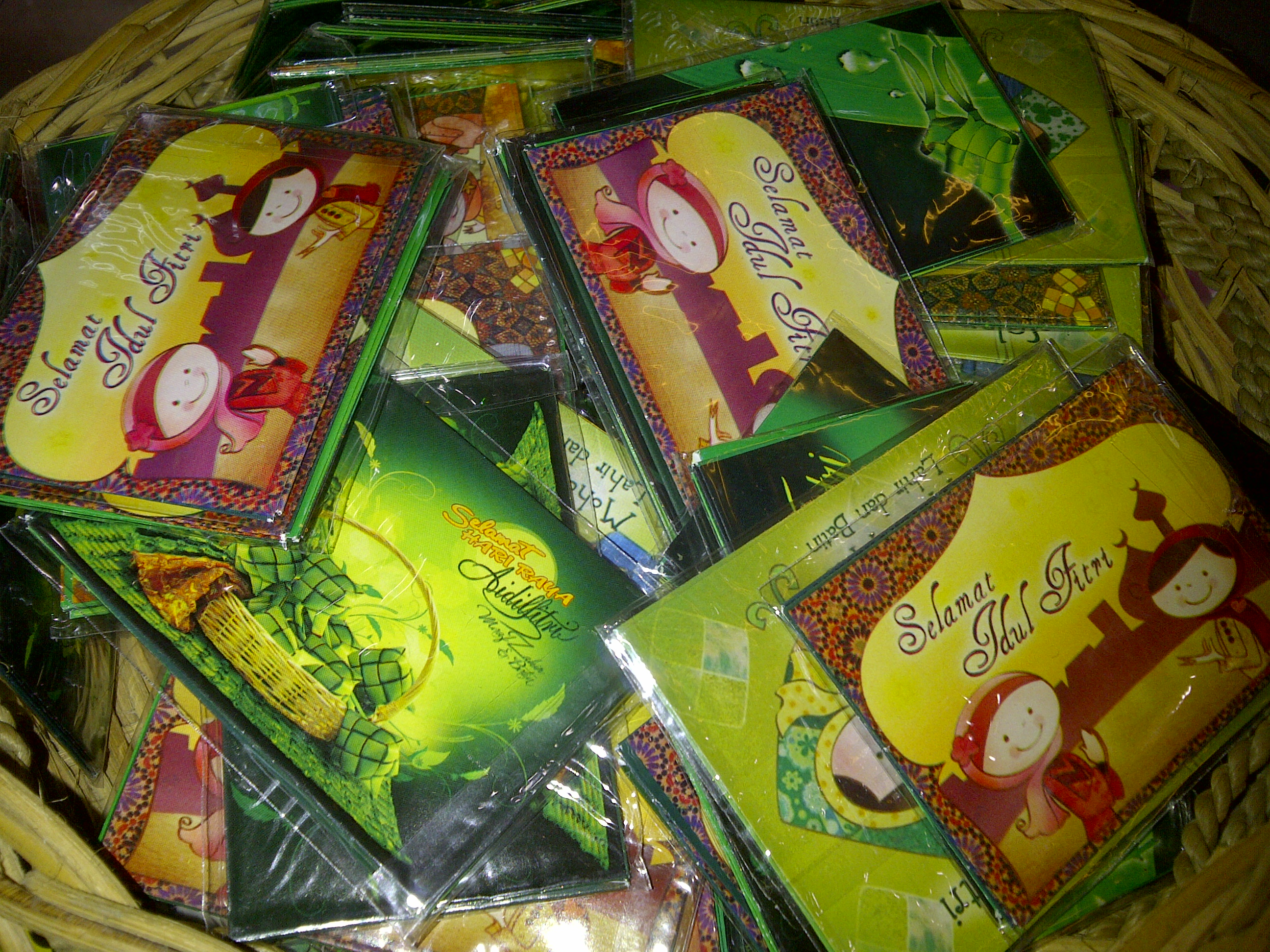 The green envelopes which are sold on one of Indonesian market at Surabaya